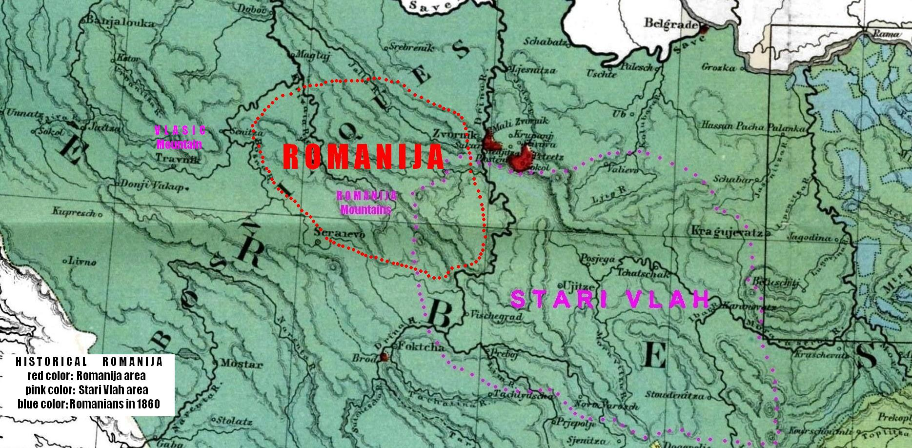 Map initialy taken from Wikipedia Commons , then cut with my software. I have added data about historical Romanija in Bosnia